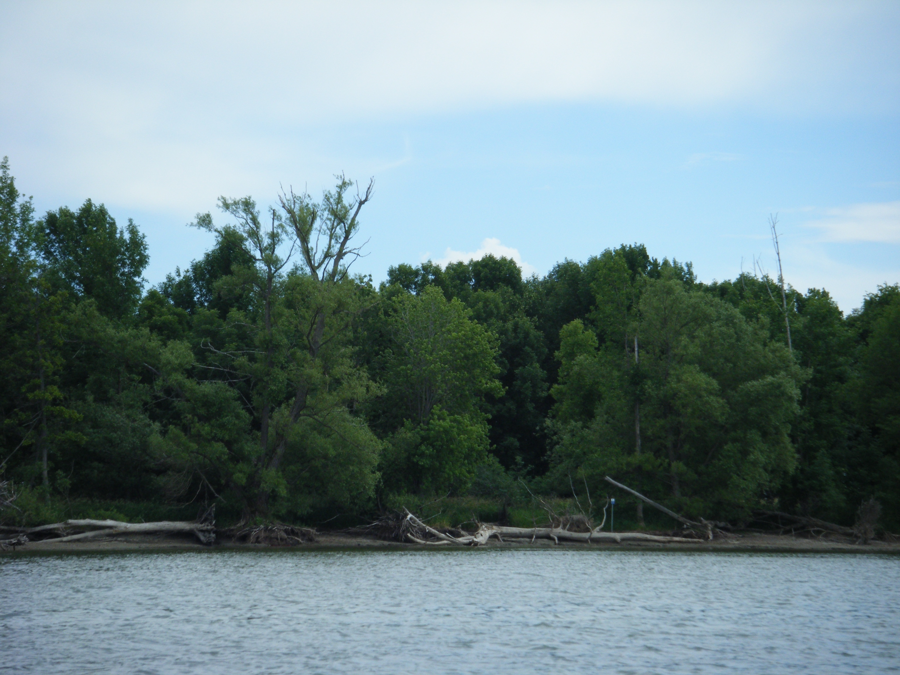 Réserve nationale de faune des Îles-de-la-Paix